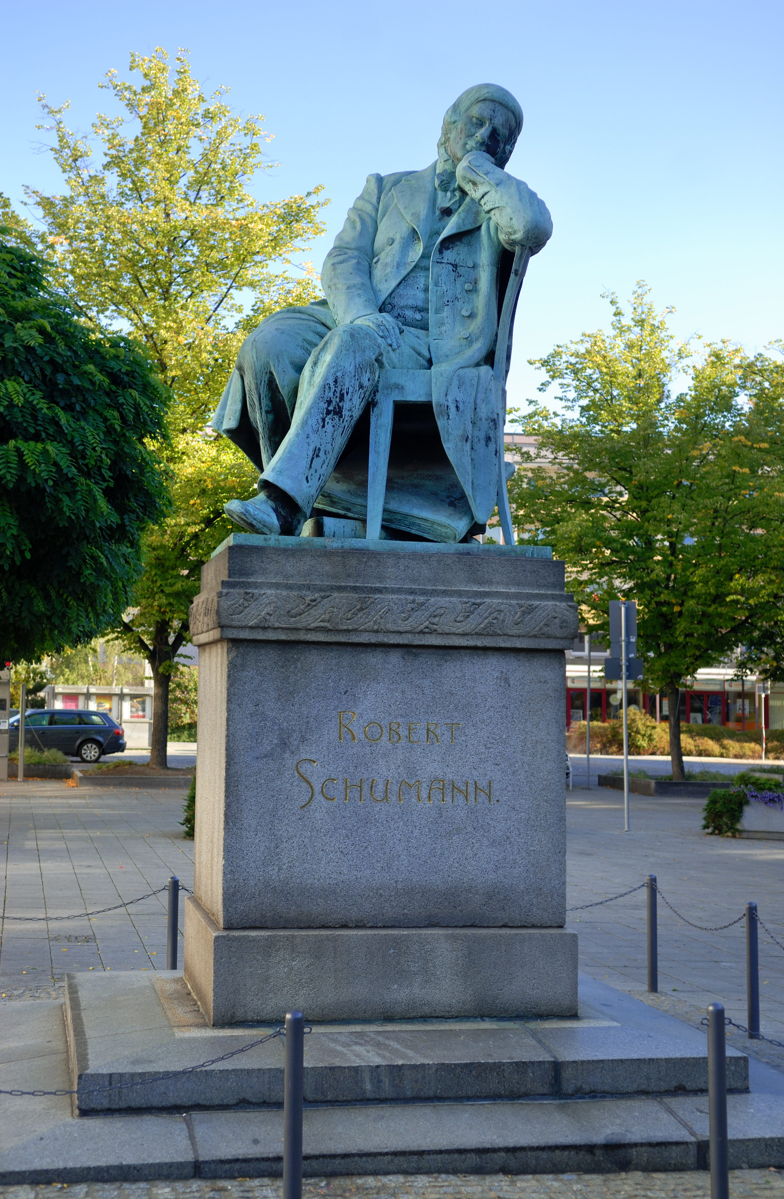 This image shows the Robert Schumann statue in Zwickau, Germany.